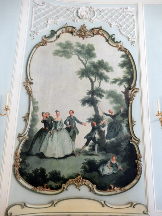 Castle Pillnitz, roccoco wall painting